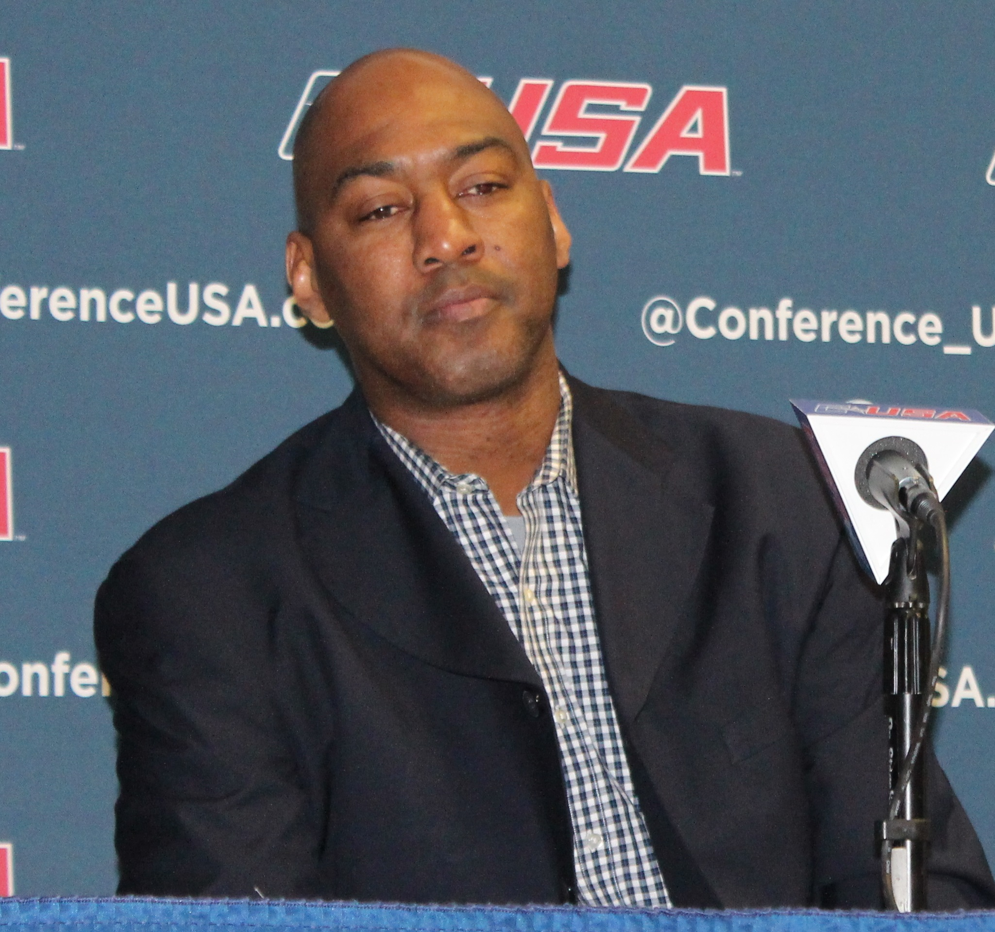 Danny Manning at the 2014 Conference USA Men's & Women's Basketball Championships